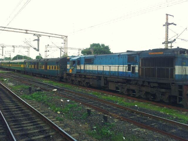 Guwahati-kolkata garib rath with WDM3D from howrah shed